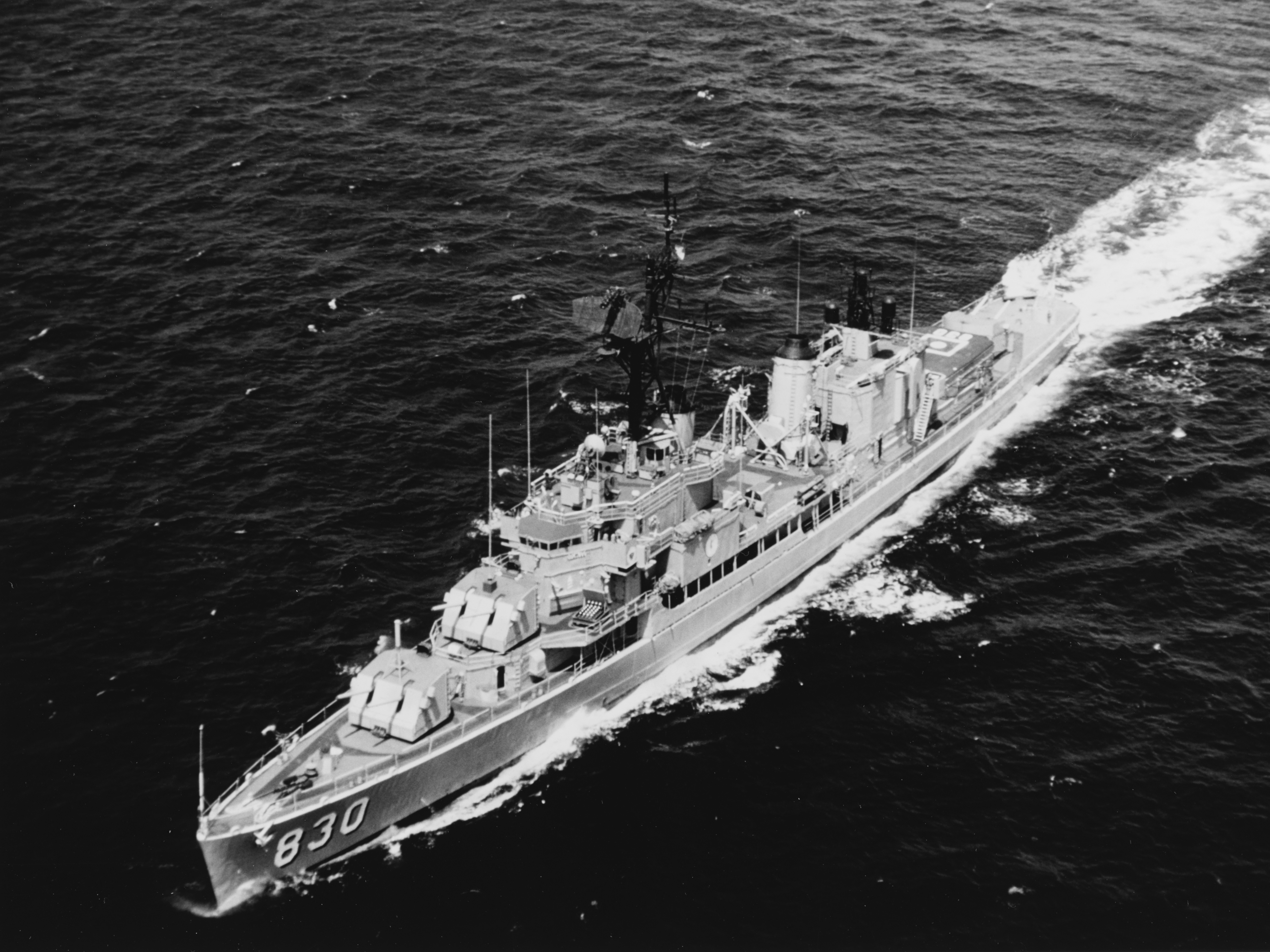 The U.S. Navy destroyer USS Everett F. Larson (DD-830) underway off the coast of Oahu, Hawaii (USA), on 16 April 1969.